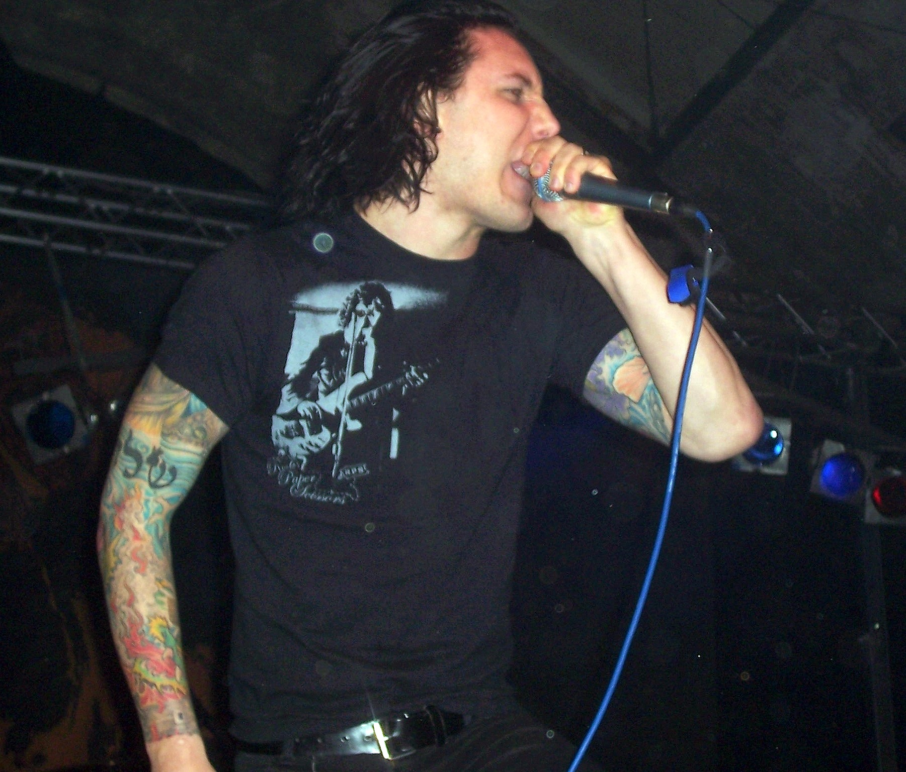 Tim Lambesis during As I Lay Dying gig in Dresden (Germany) June 7th, 2005